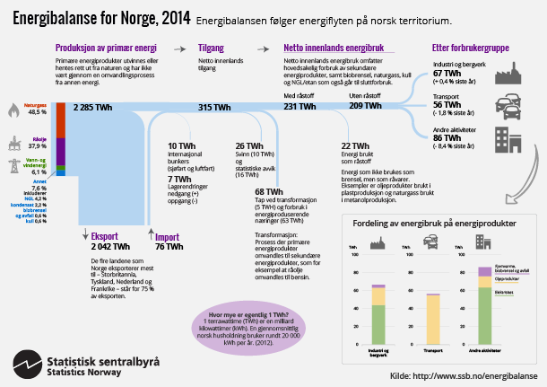 The energy balance on Norwegian territory in 2014